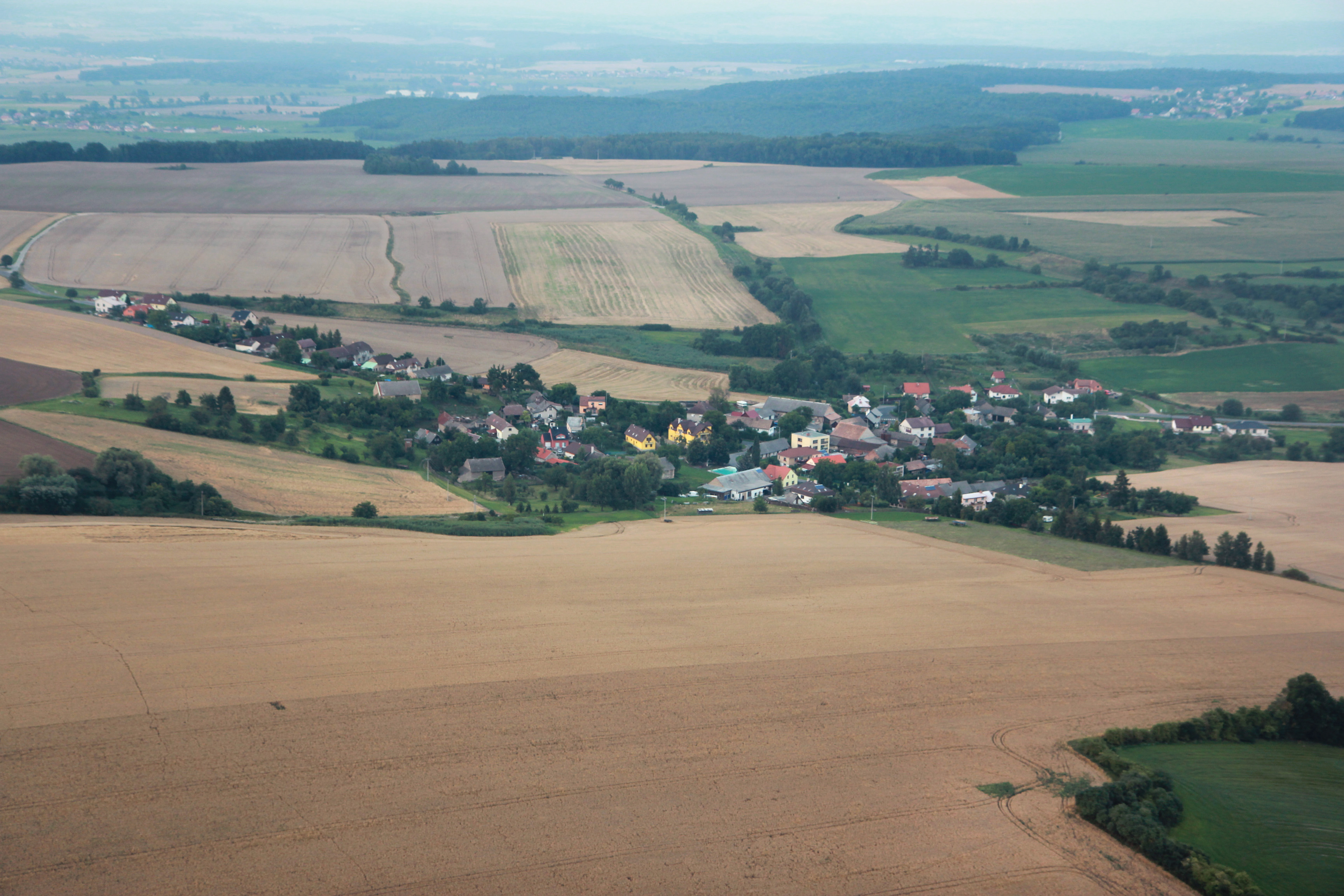 South view of Ctiměřice village, Czech Republic